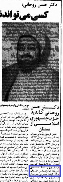 Newspaper script dated dated 1980